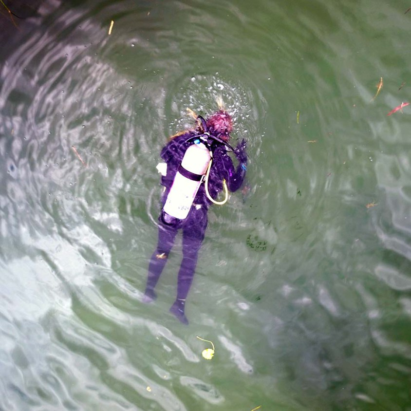 This is a diver on Lake Peten near Nixtun Ch'ich. The photograph was taken by Dr. Timothy Pugh.